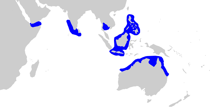 Distribution map for Carcharhinus amblyrhynchoides